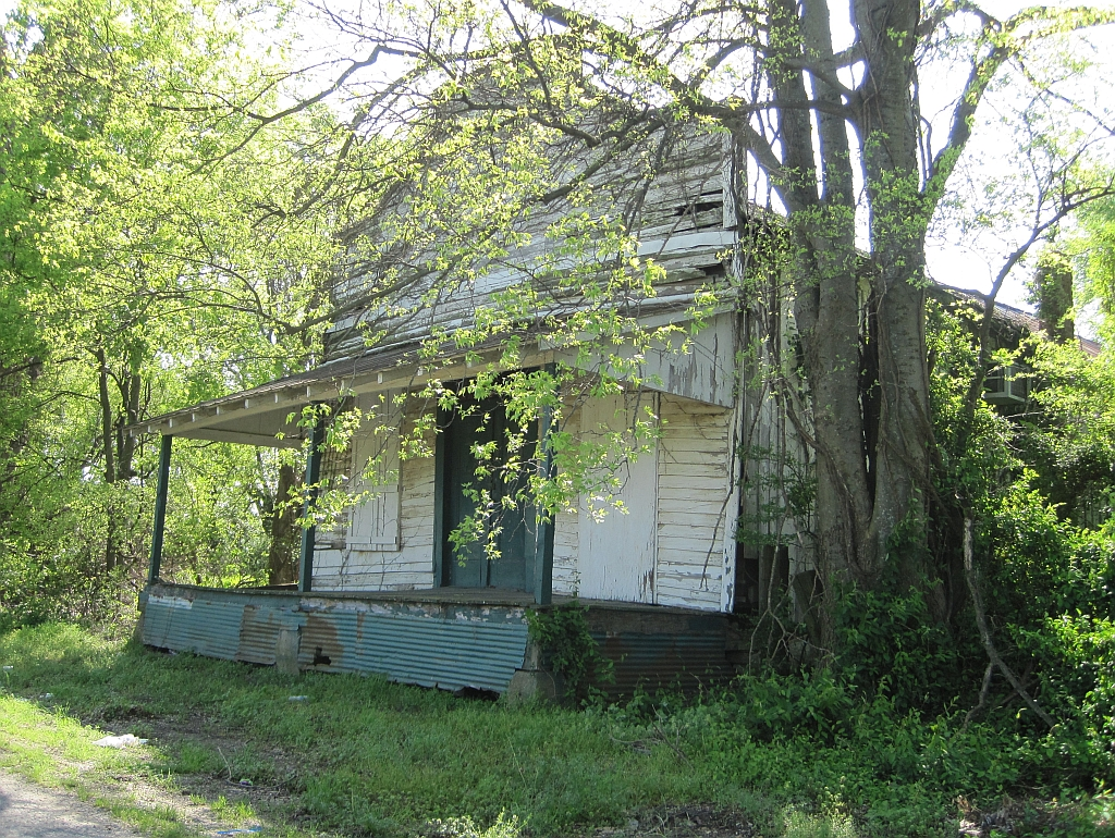 Mound City, Arkansas